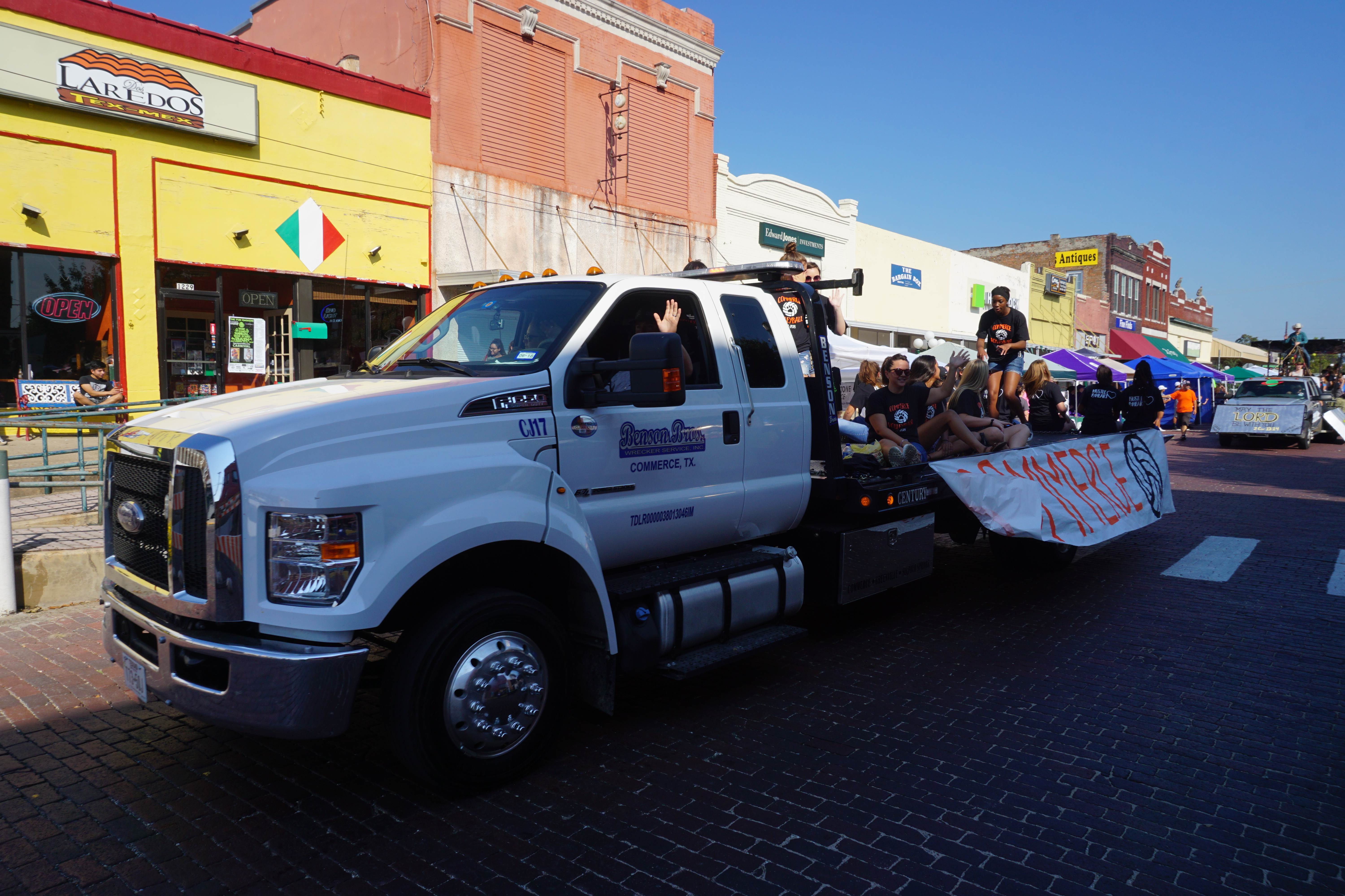 The Commerce High School volleyball team float in the parade at the 32nd Annual Bois d'Arc Bash in Commerce, Texas (United States).